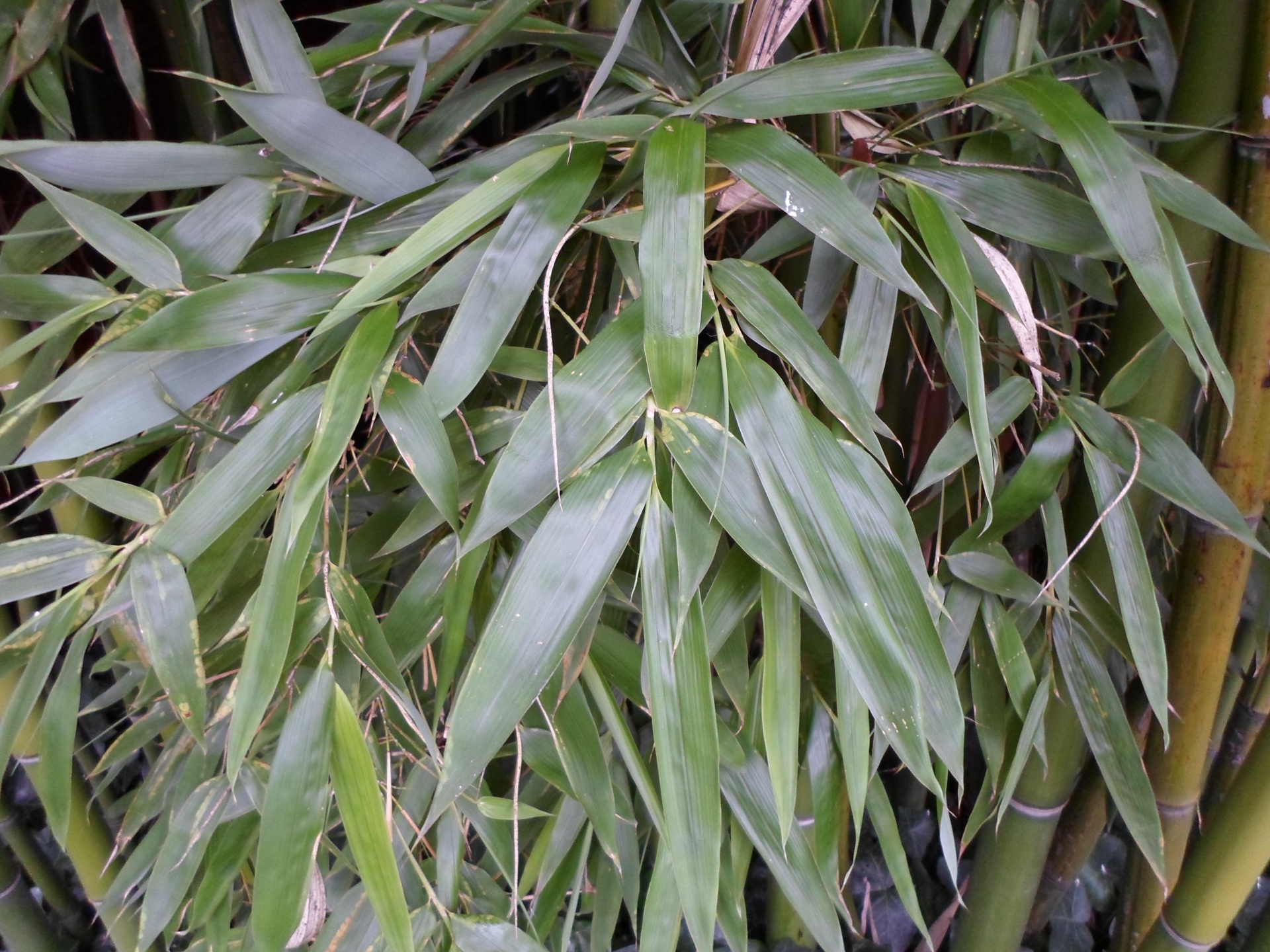 Feuilles de bambou _ bamboo foliage - leaf _VAN DEN HENDE ALAIN CC_BY_SA_40